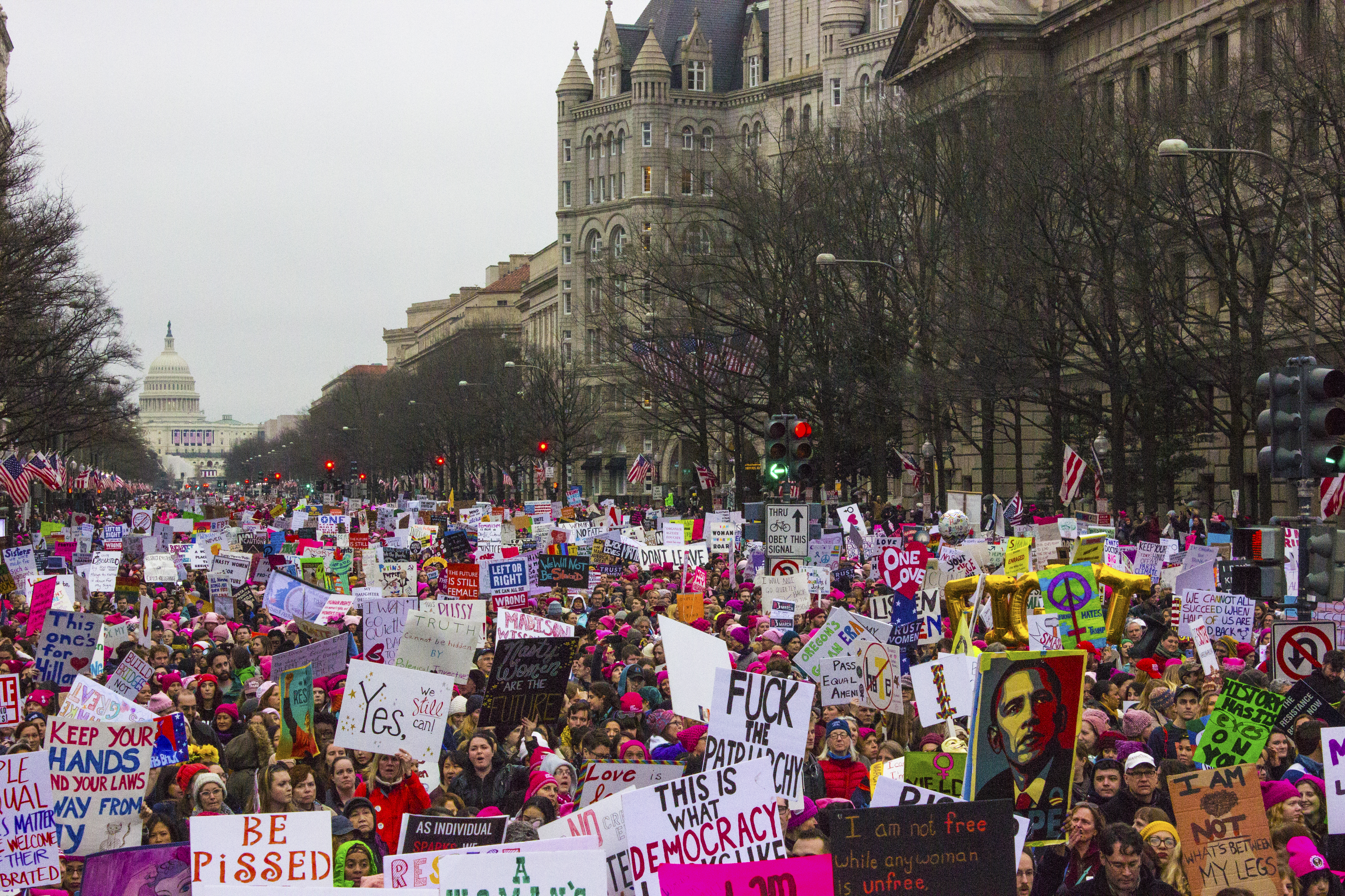 Taken the day of the Women's March in Washington, D.C. from Pennsylvania Avenue